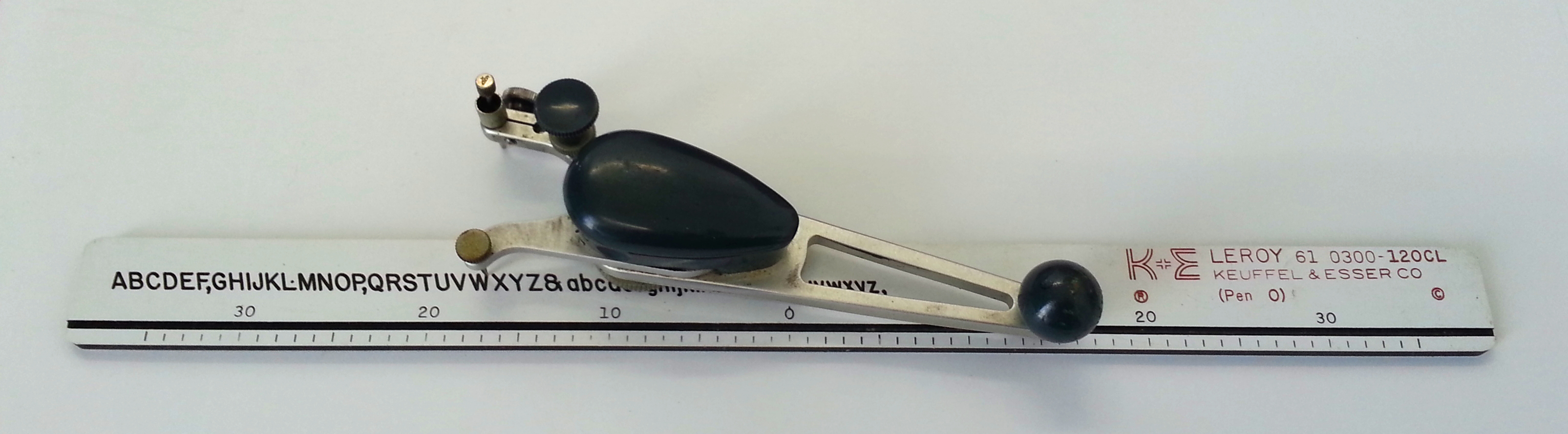 K & E (Keuffel and Esser Co.) LEROY scriber and template, circa 1959. A type of lettering set used for technical lettering.